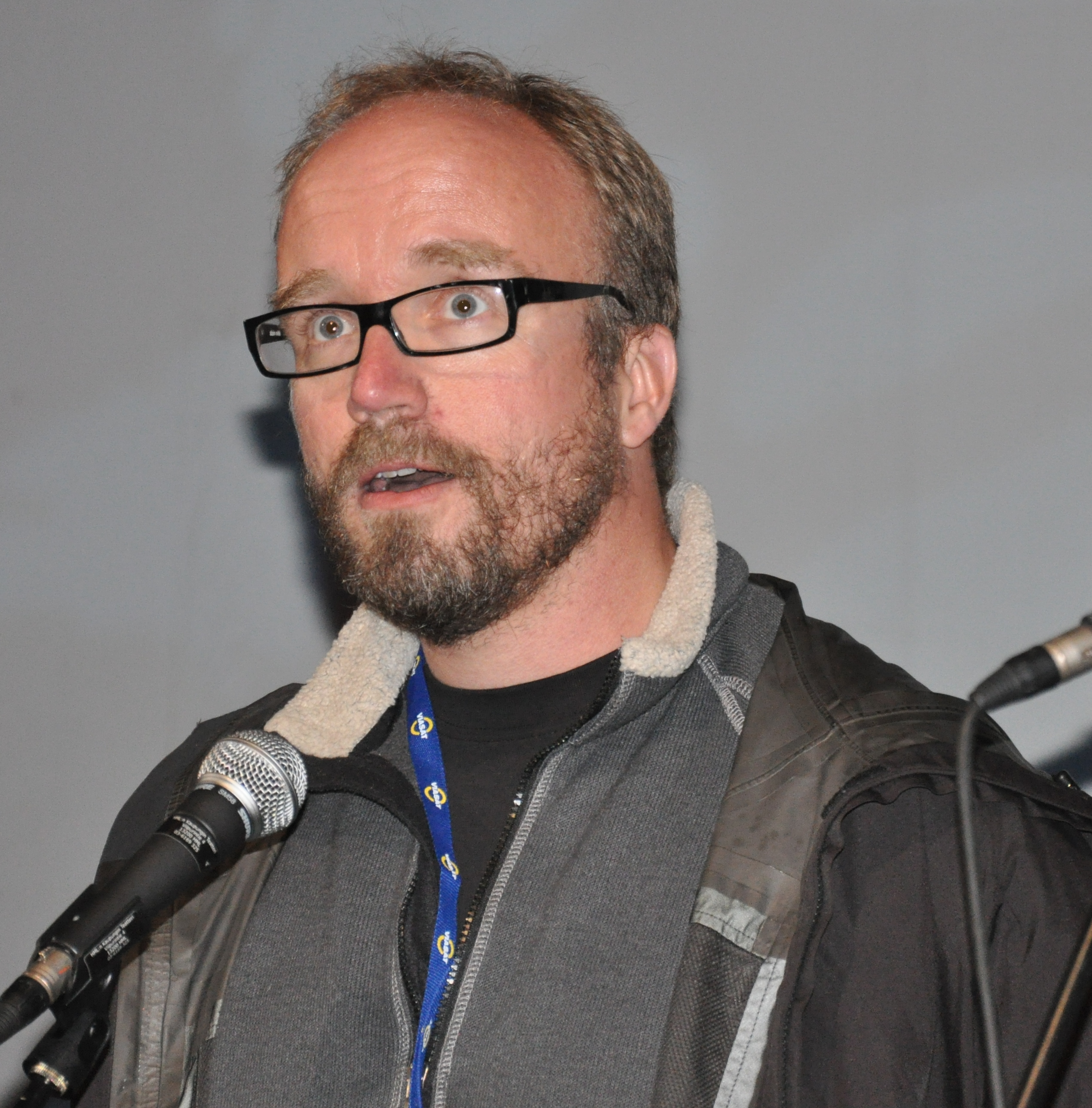 Finnish screenwriter Aleksi Bardy at the Midnight Sun Film Festival 2009 in Sodankylän, Finland.